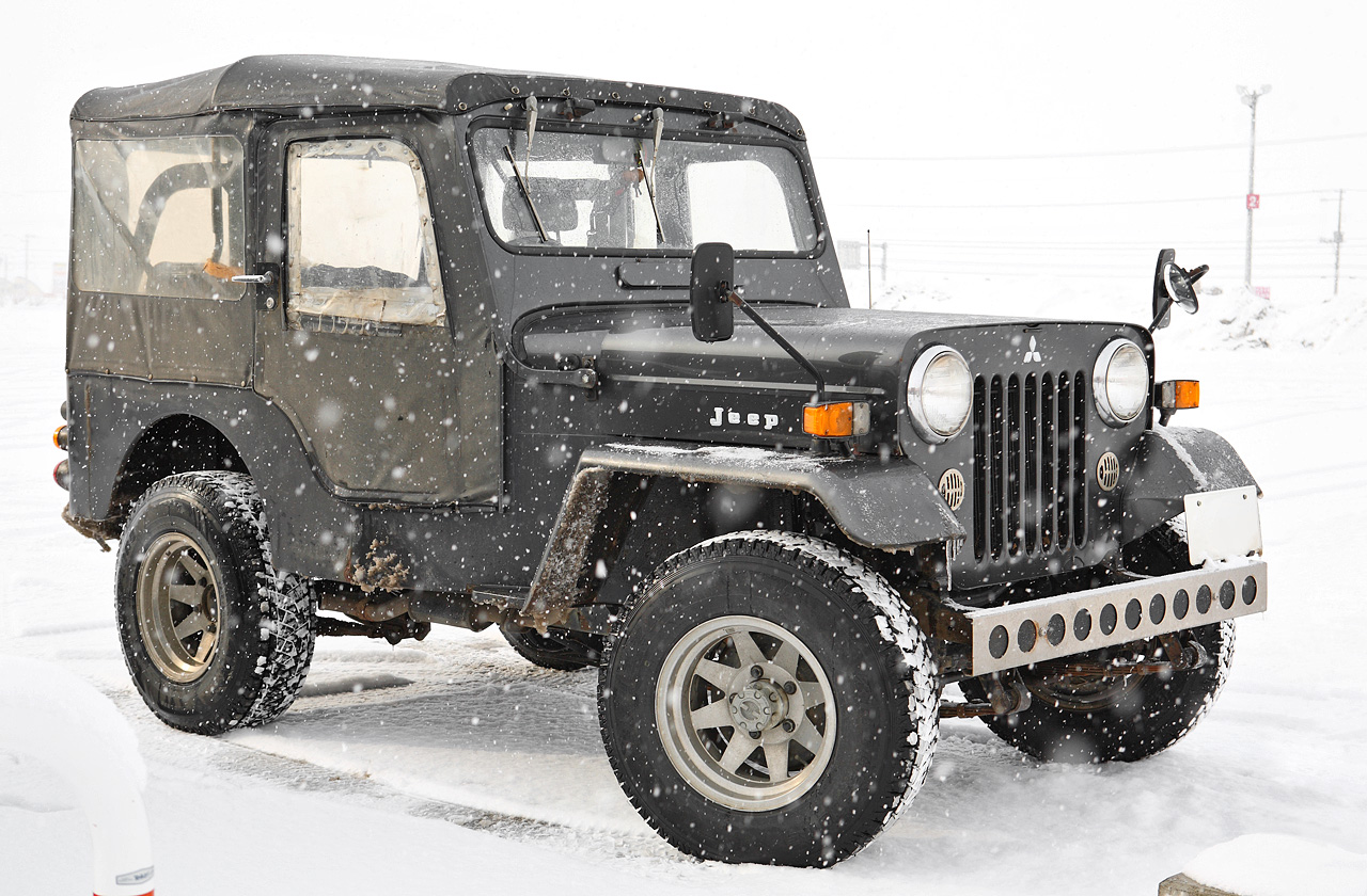 Mitsubishi Jeep J-53 ( 2.7L Di Turbo Diesel )